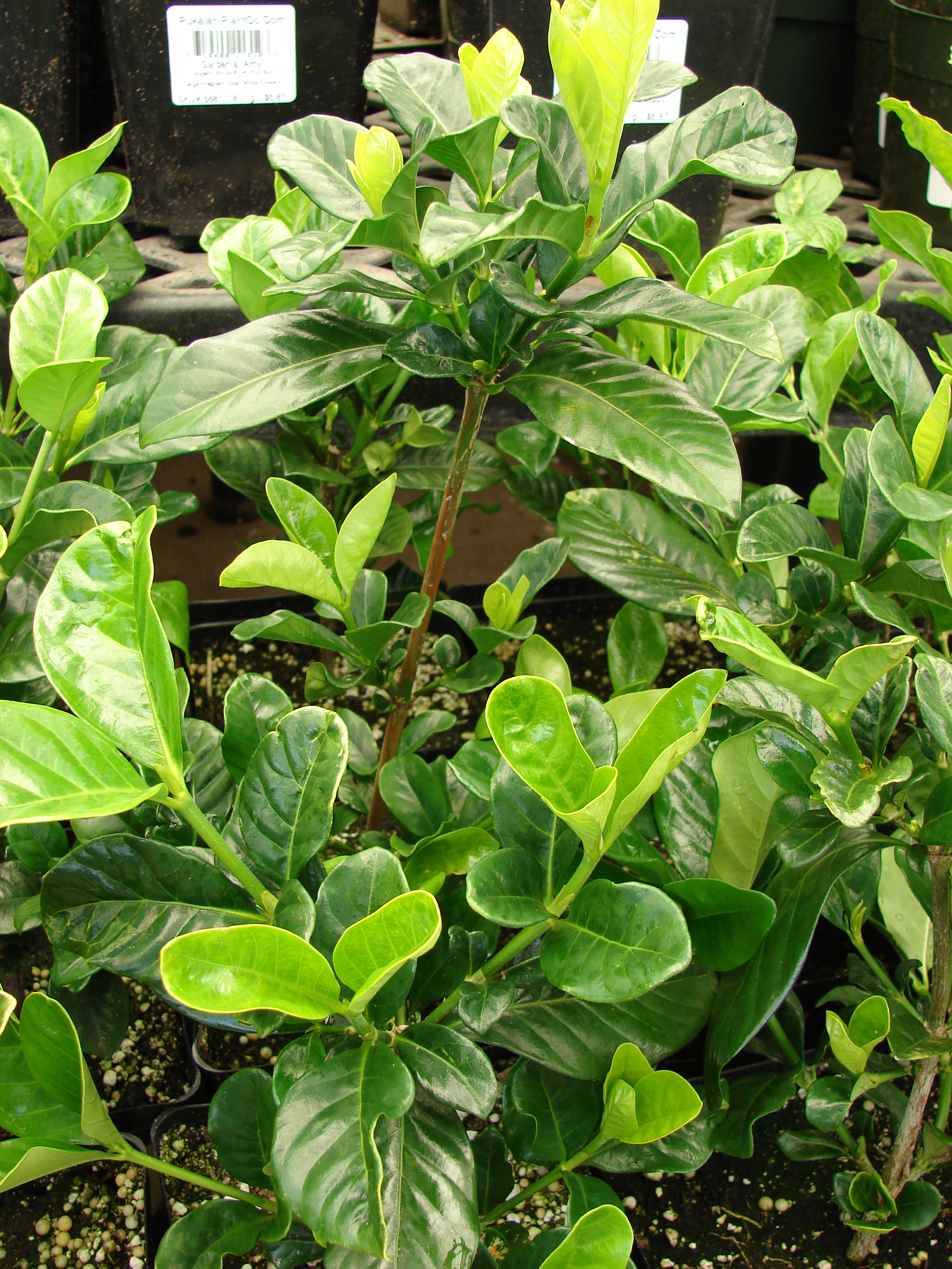 Gardenia augusta (August Beauty habit). Location: Maui, Walmart Kahului